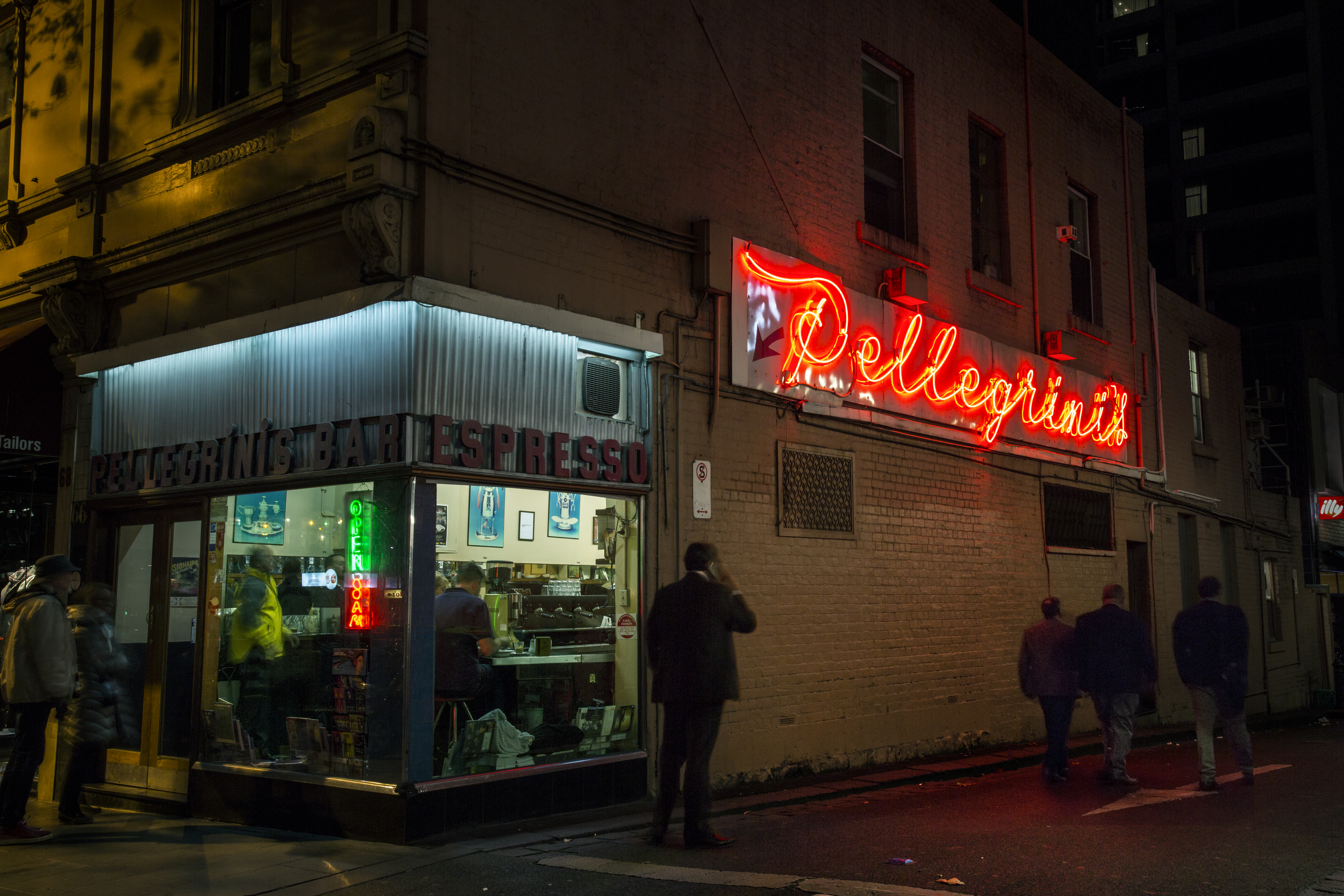 The iconic Pellegrini's Espresso Bar, located on Bourke Street in the Melbourne city centre, is a well known part of the city's cafe and coffee culture. Pellegrini was opened in 1954 by two Italian immigrant brothers and quickly established itself as one of the best known landmarks of Melbourne's multicultural food and coffee scene. Since the 1970s it had been co-owned by Nino Pangrazio and Sisto Malaspina, who was murdered in the 2018 Bourke Street stabbing attack.